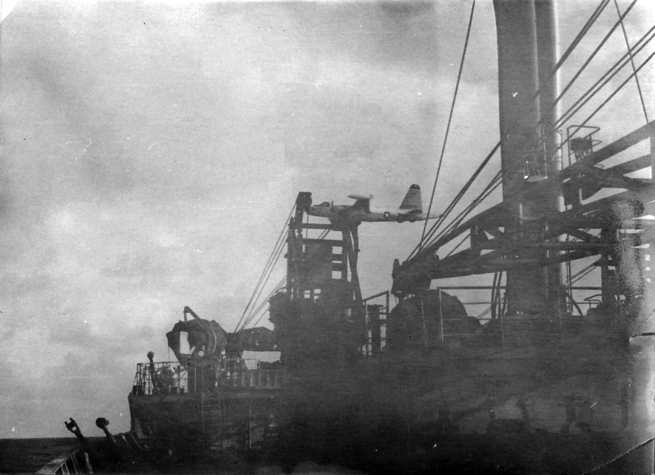 A U.S. Navy Lockheed SP-2H Neptune of Patrol Squadron 23 (VP-23) flying over the stern of Soviet freighter Metallurg Anosov off Cuba in June or July 1964.